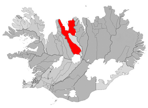 Based on Municipalities of Iceland.png.